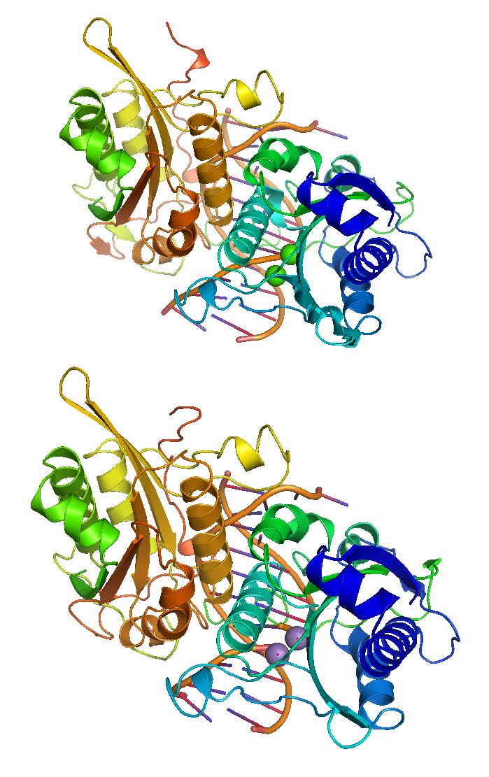 Crystal structure of BamHI with DNA in the presence of calcium before cleavage (top, 2.00 Å resolution) and in the presence of manganese after after cleavage (bottom, 1.80 Å). See Viadiu H. & Aggarwal A.K. (1998). Nat. Struct. Biol. 5:910-916. Structural data obtained from (2BAM and 3BAM) and visualized with Pymol.